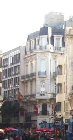 Building: Plaza Fuerte Hotel Location: Calle Sarandí, Montevideo, Uruguay